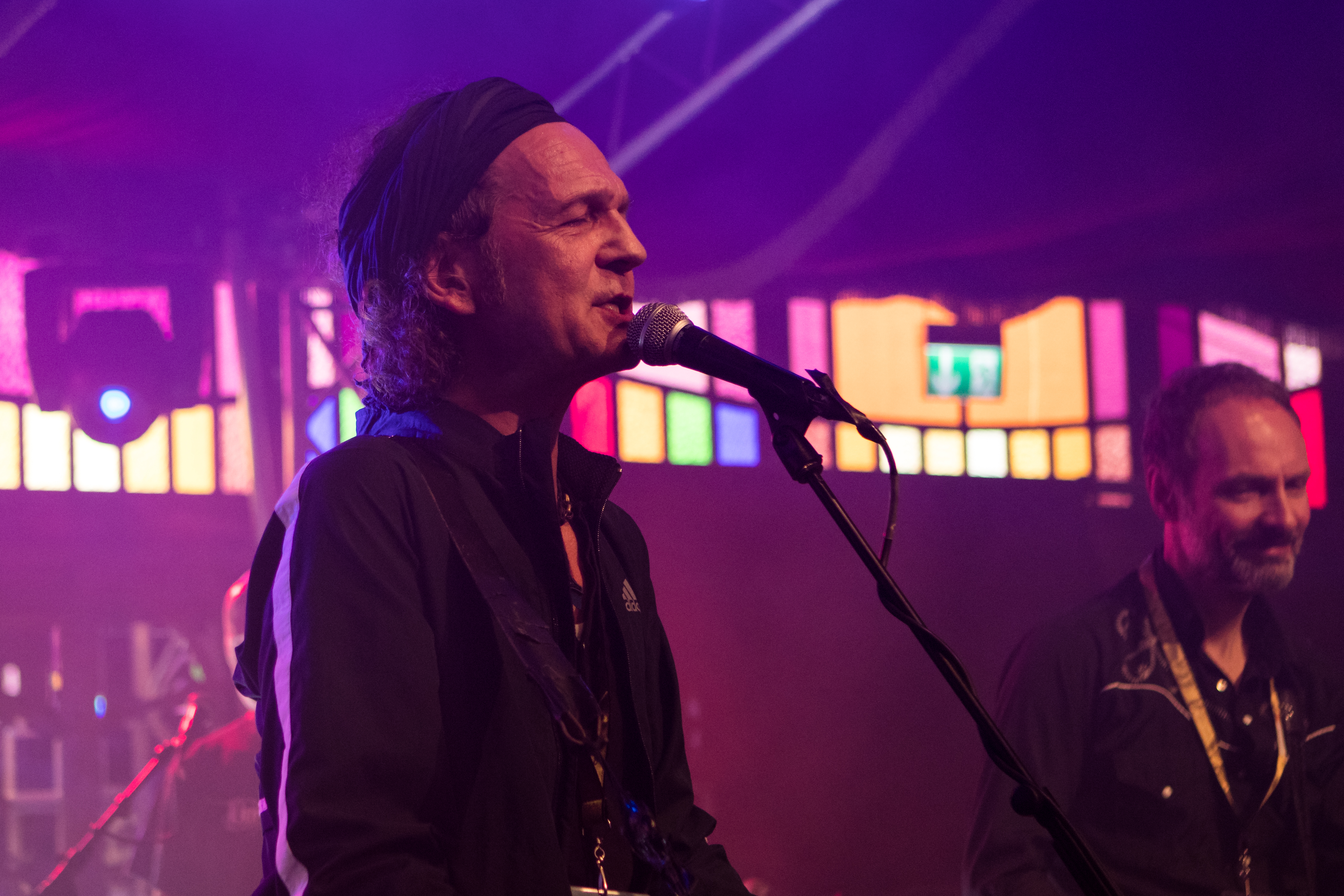 Wolf Maahn at Haldern Pop Festival 2017